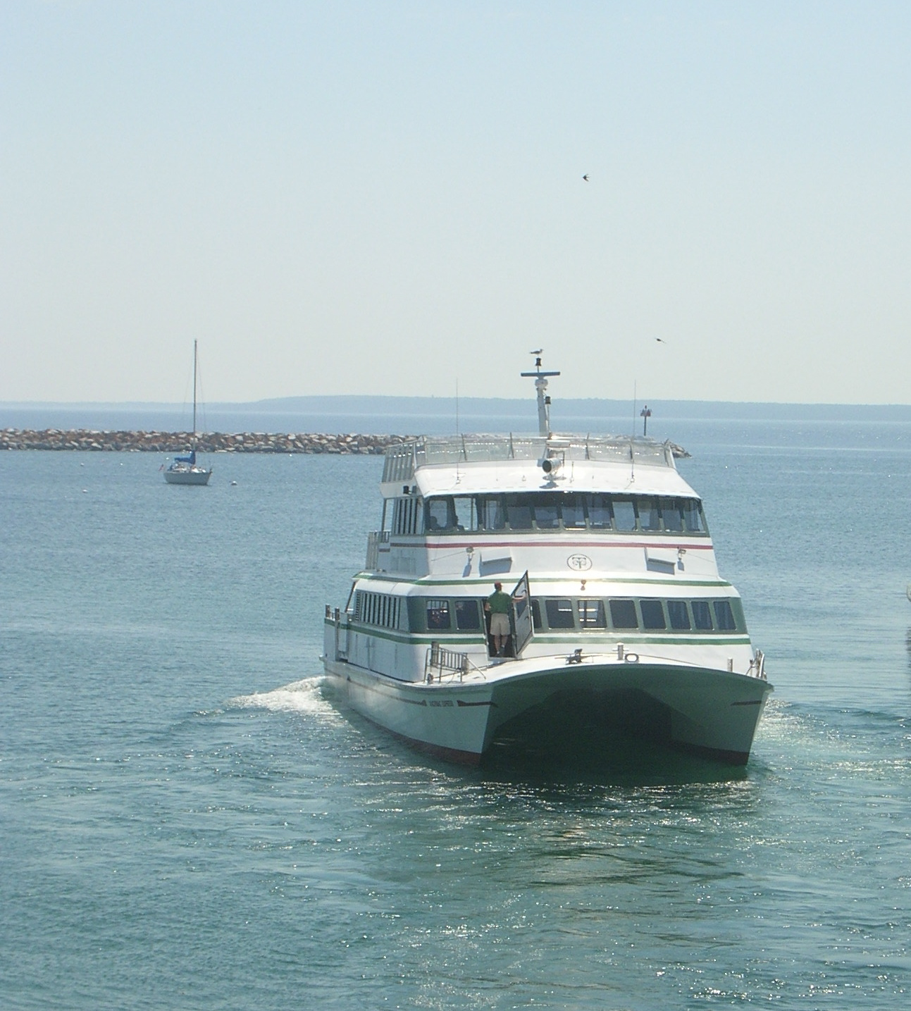 Mackinac Express, a catamaran passenger ferry of the Arnold Transit Company at Mackinac Island, Michigan. Uploaded to by Flickr user "hyku" on 8 June 2006 with the Creative Commons Attribution license.